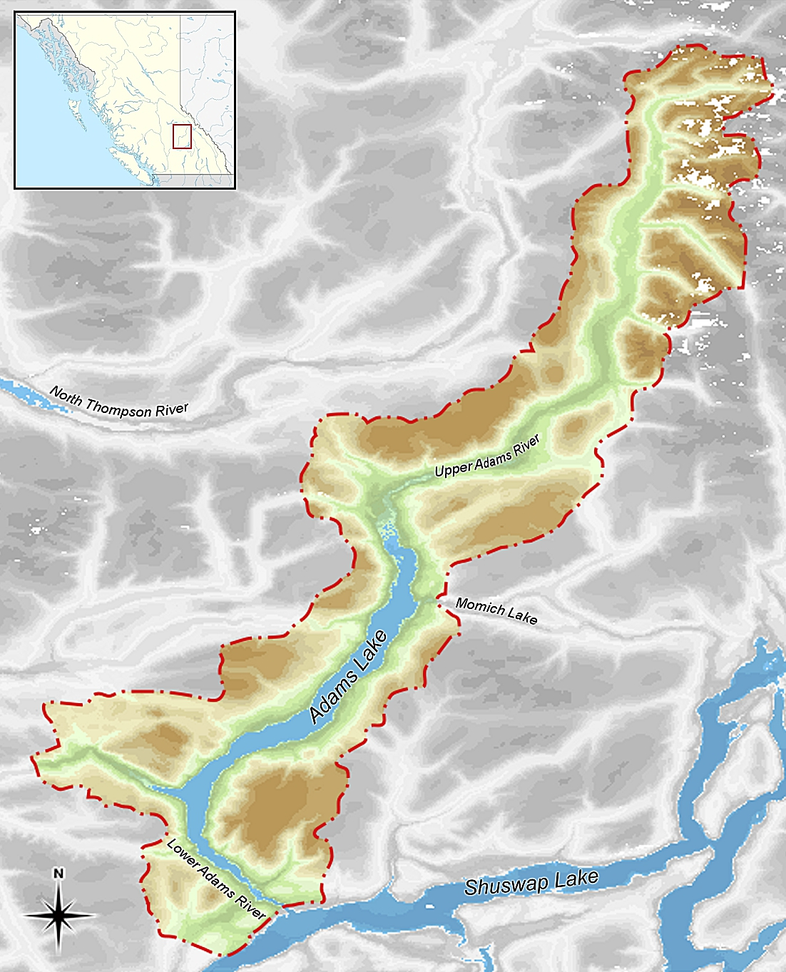 Watershed map of Adams River, British Columbia. Map source from the USGS Global Data Explorer. Data source from the Shuswap Watershed Project.